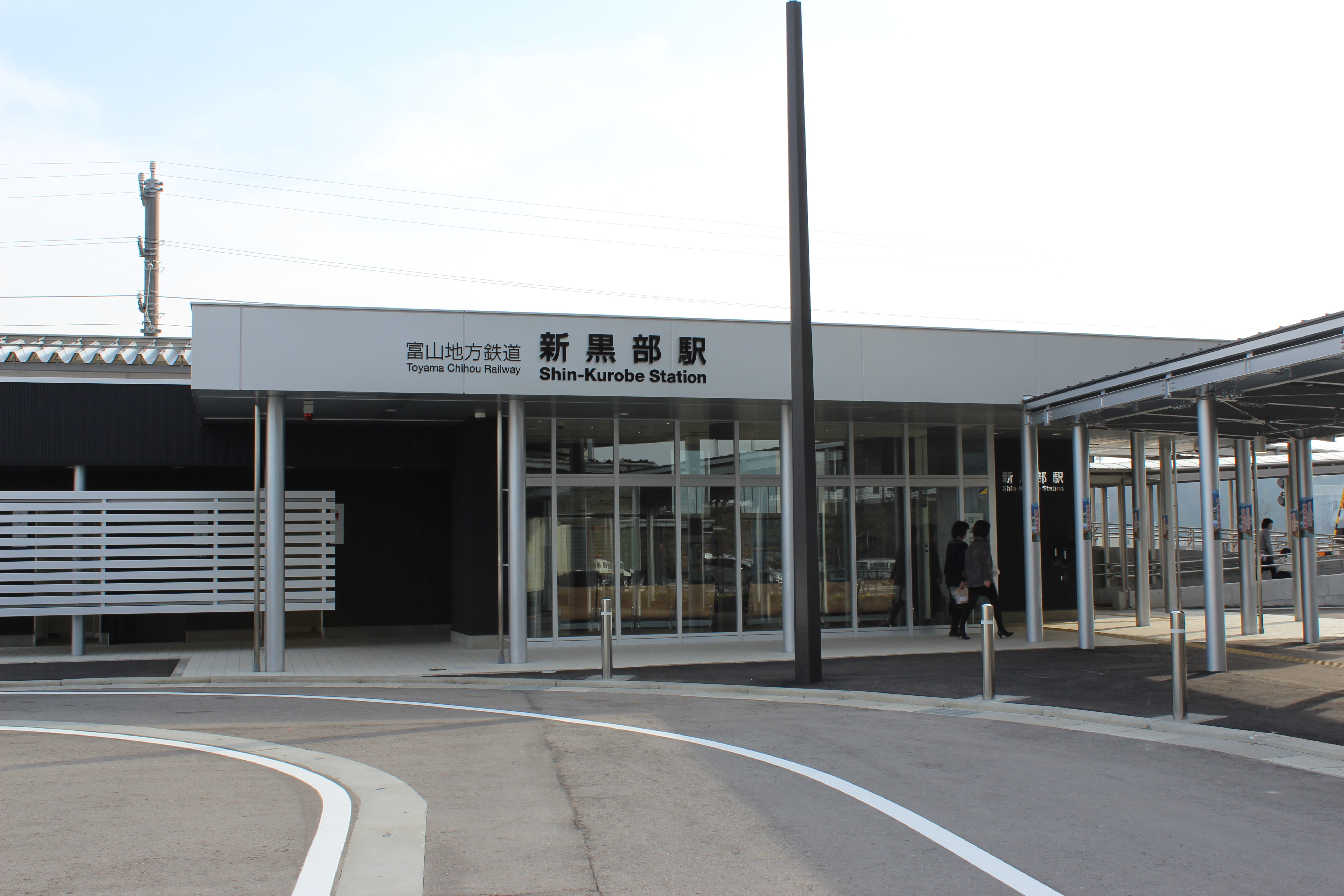 Shin-Kurobe Station on the Toyama Chiho Railway in Toyama Prefecture, Japan